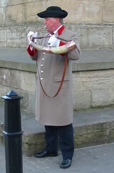 The Hornblast in Ripon. Ripon, North Yorkshire, England. The hornblow has taken place in Ripon City Square every night at 9.00 pm since 886AD. The tradition continues today. The horn is blown at each corner of the obelisk. It is then blown three times at the City Hall nearby (see other geograph) if the Mayor is inside. If the Mayor is not at the City Hall and is at home or is at one of the hostelries in Ripon, then the horn is blown three times there.